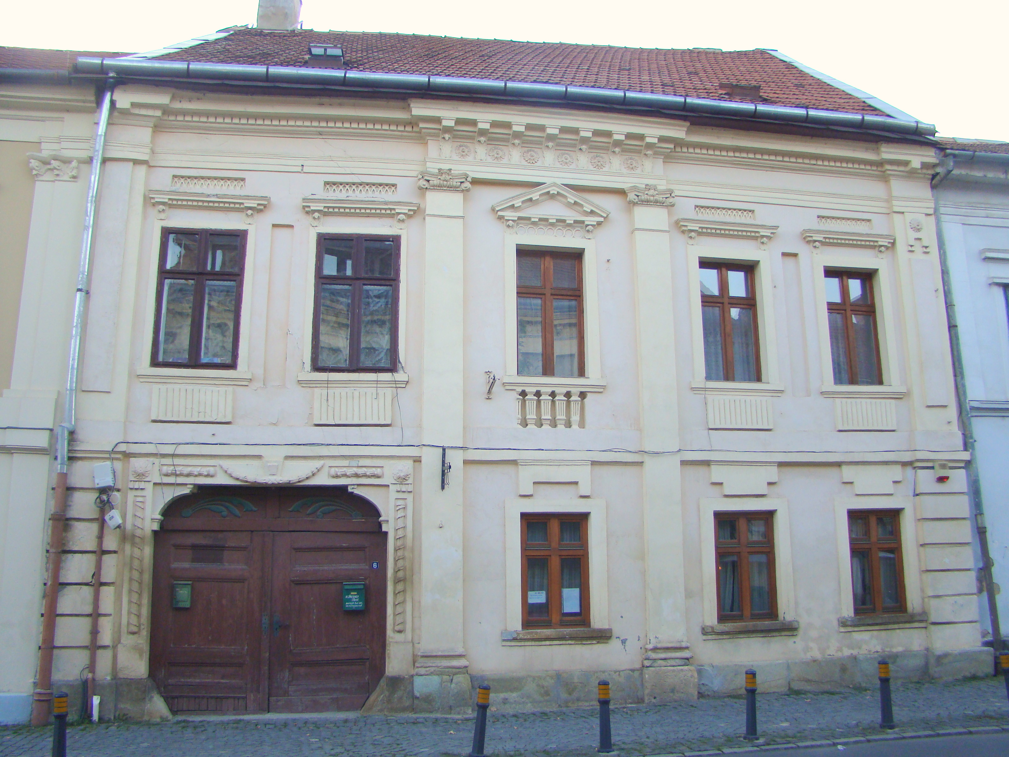 House, historic monument, in Bistrița, Nicolae Titulescu street 6